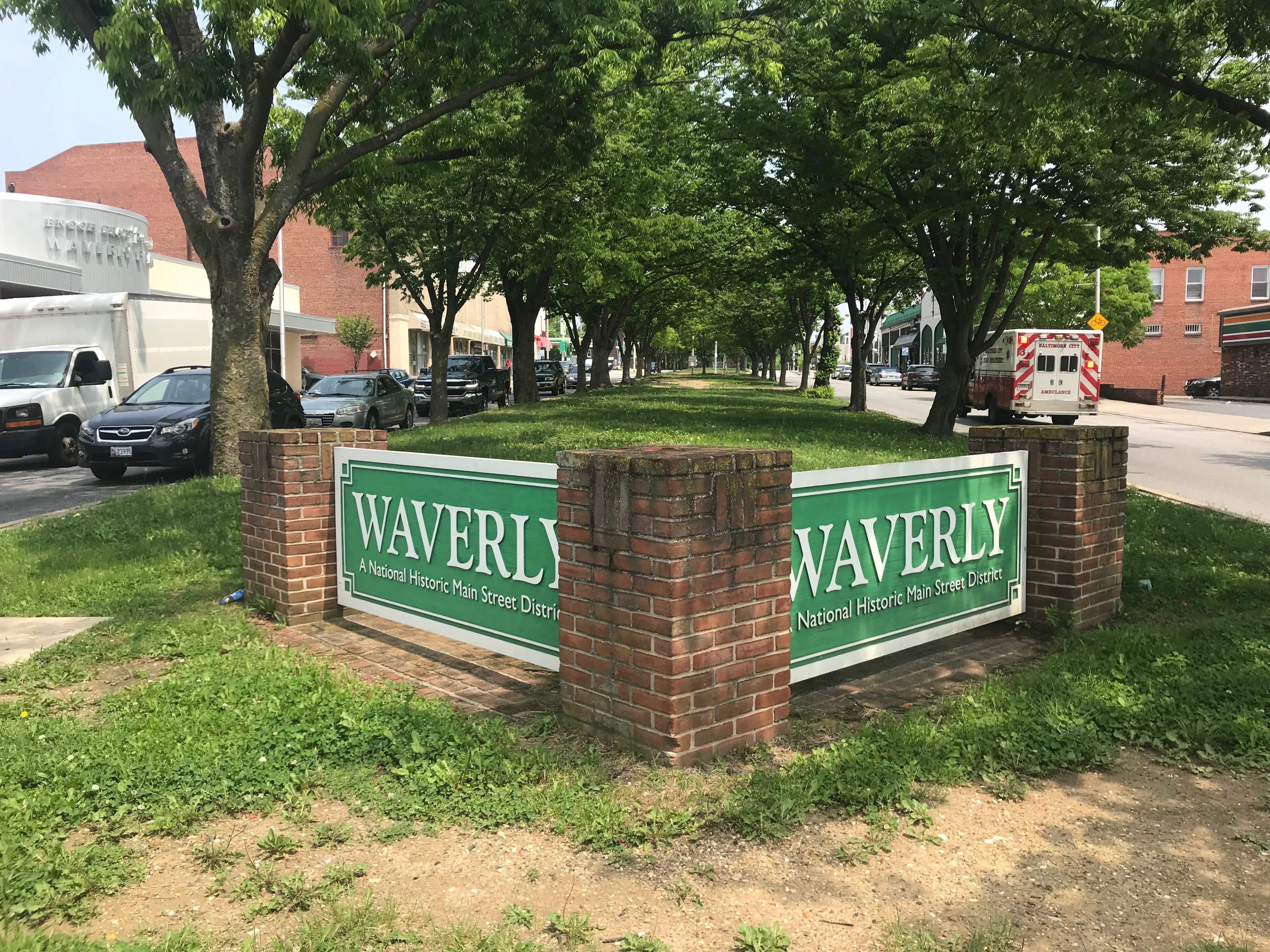 Photograph by Eli Pousson, 2018 May 14.